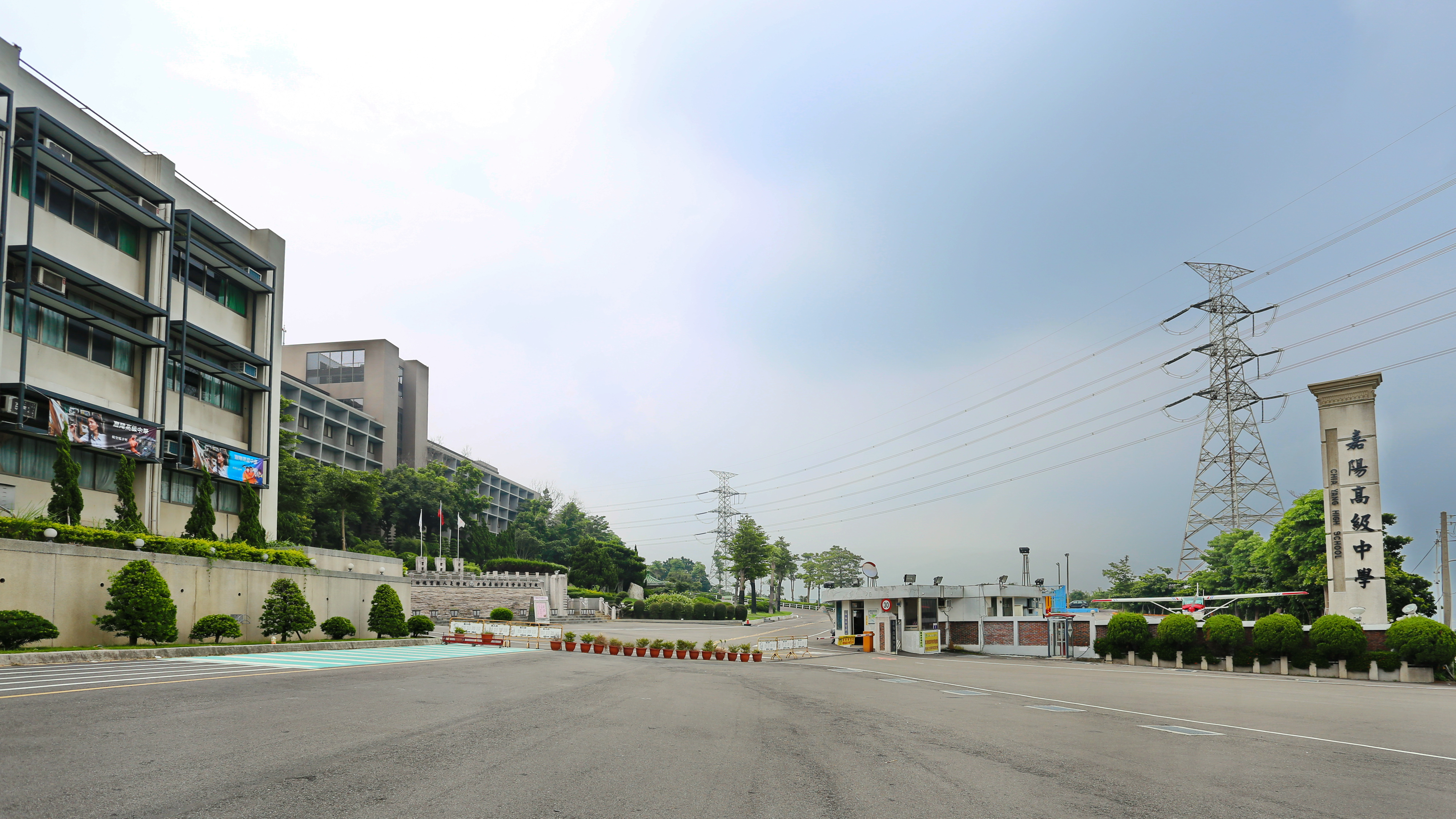 Chia-Yang High School, Taichung City, Taiwan.